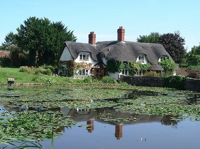 Badger Pond & House